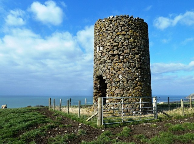 Old Windmill at Ballantrae